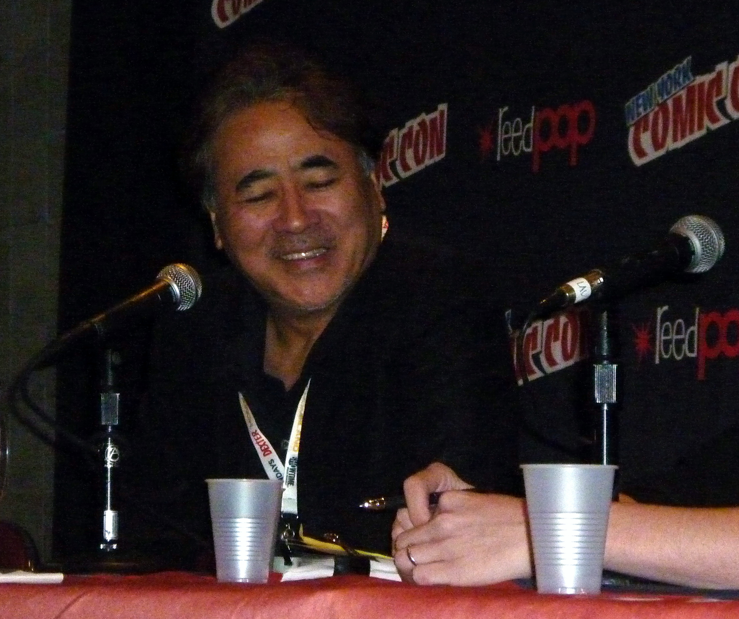 Japanese artist Yoshitaka Amano photographed on Day 2 of the 2012 New York Comic Con, Friday October 12, 2012 at the Jacob K. Javits Convention Center in Manhattan.